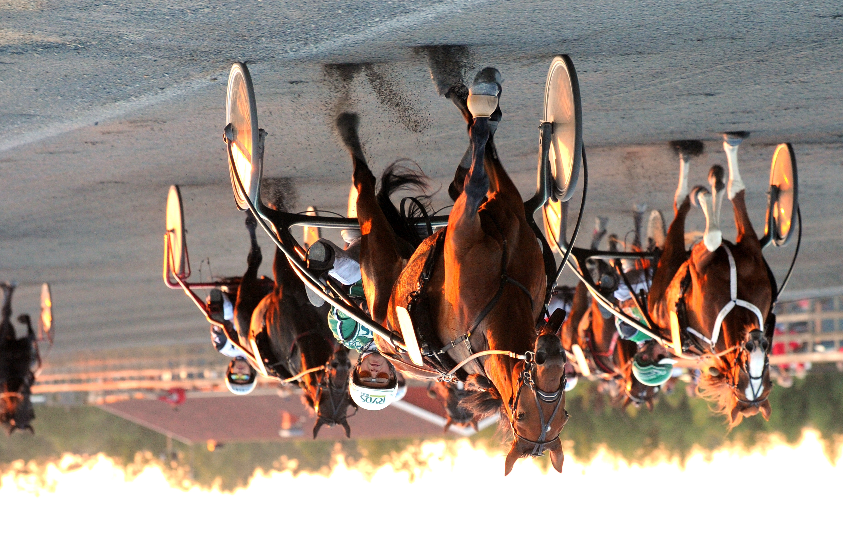 Global Midnight and Åke Svanstedt at Tingsrydtravet, 2012-06-13.